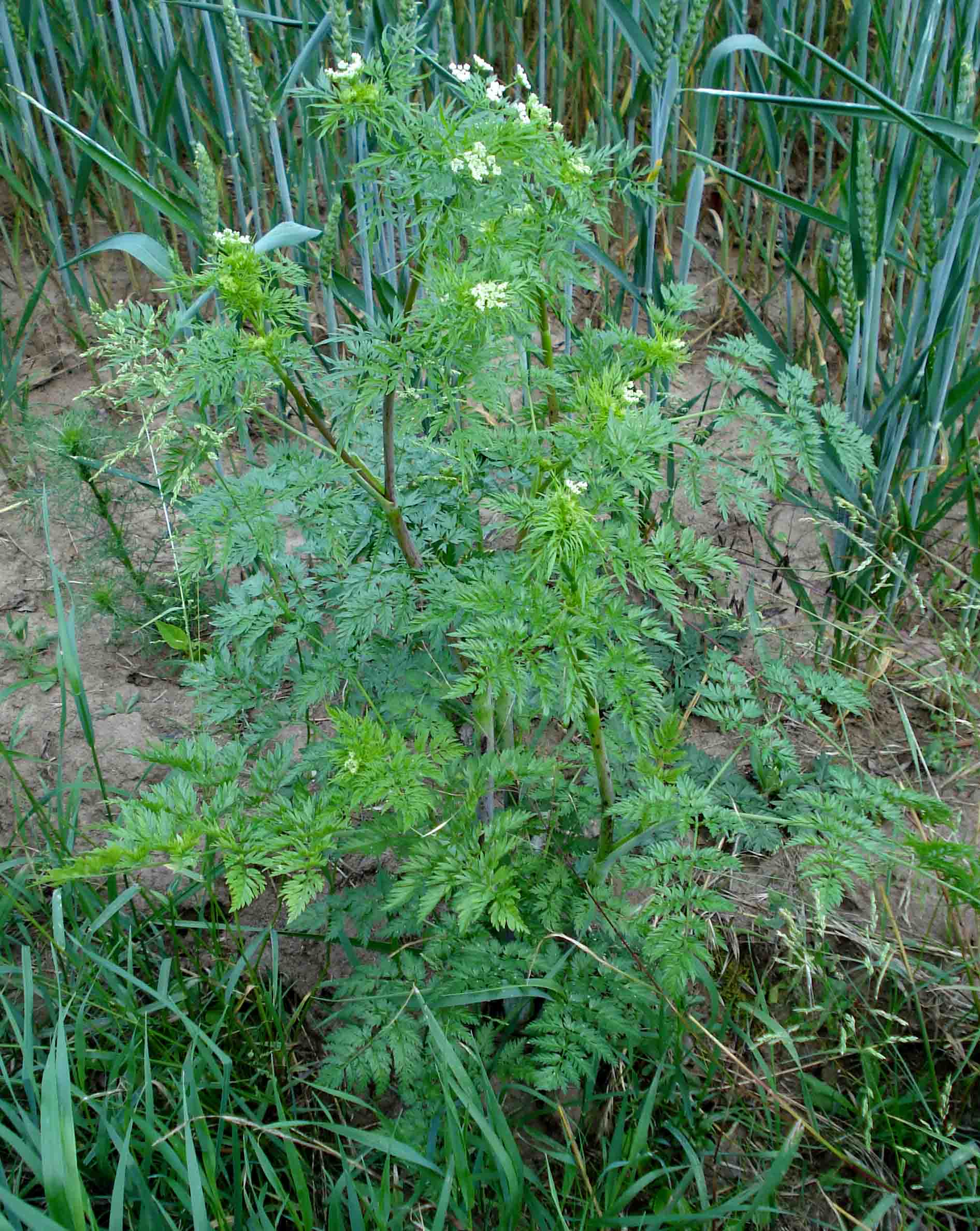 Chaerophyllum bulbosum (Unterfranken, Germany)